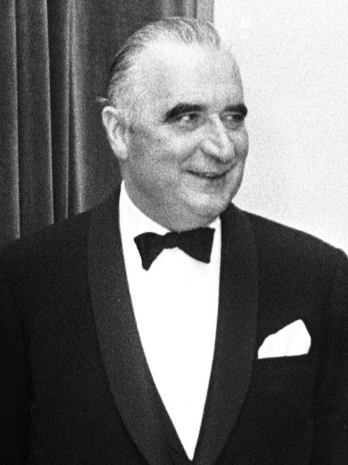 Koningin Juliana en prins Bernhard bieden de deelnemers aan de EEG-Topconferentie een galadiner aan op paleis Huis ten Bosch; v.l.n.r. koningin Juliana, president Pompidou van Frankrijk, mevrouw Claude Pompidou en prins Bernhard 1 december 1969